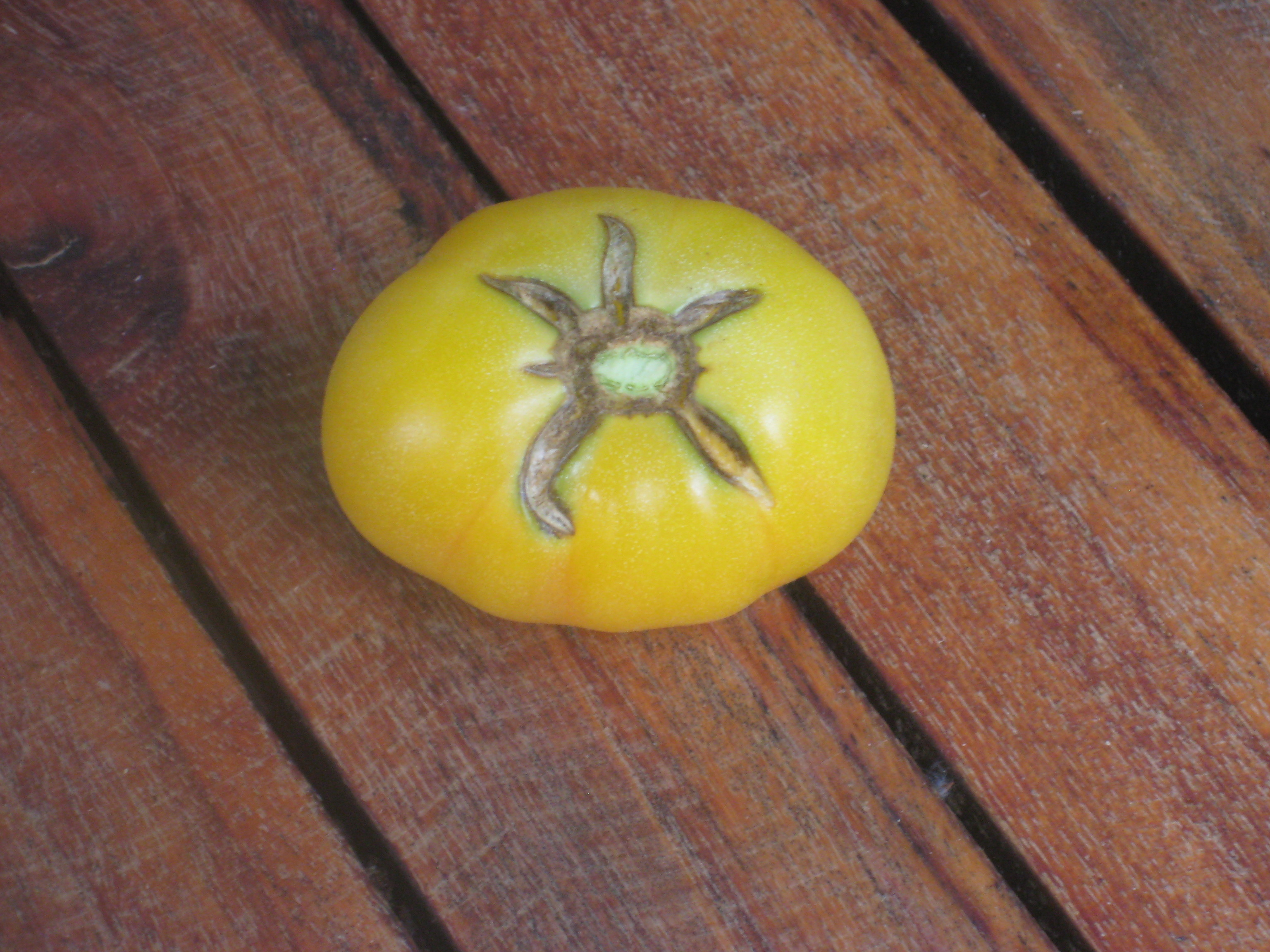 Garden Peach Tomate